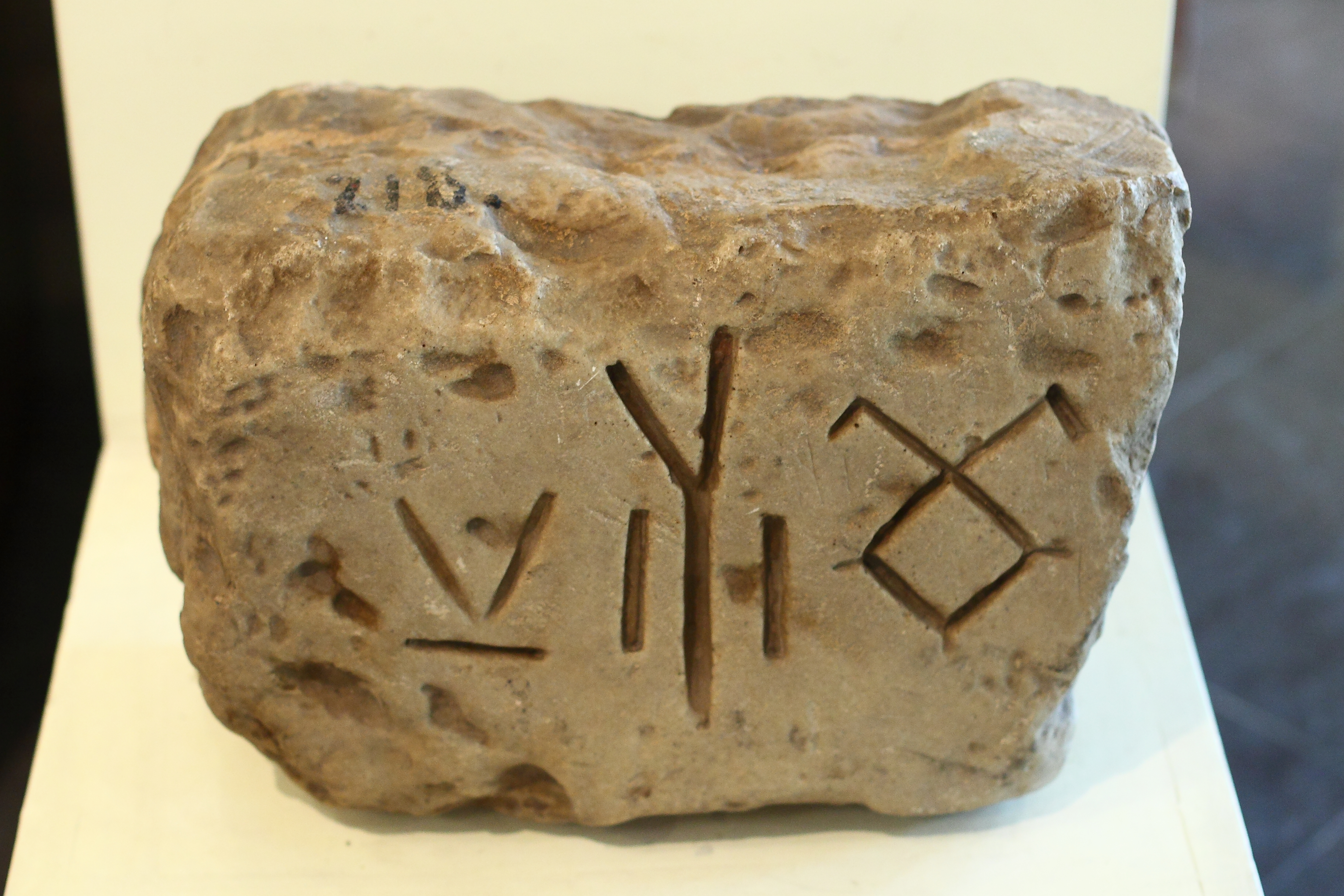 National Historical Museum of Bulgaria, in Sofia; block with incised signs, 8th - 9th century AD; limestone, Byala town, Varna region, the original is in the Regional Museum, Varna